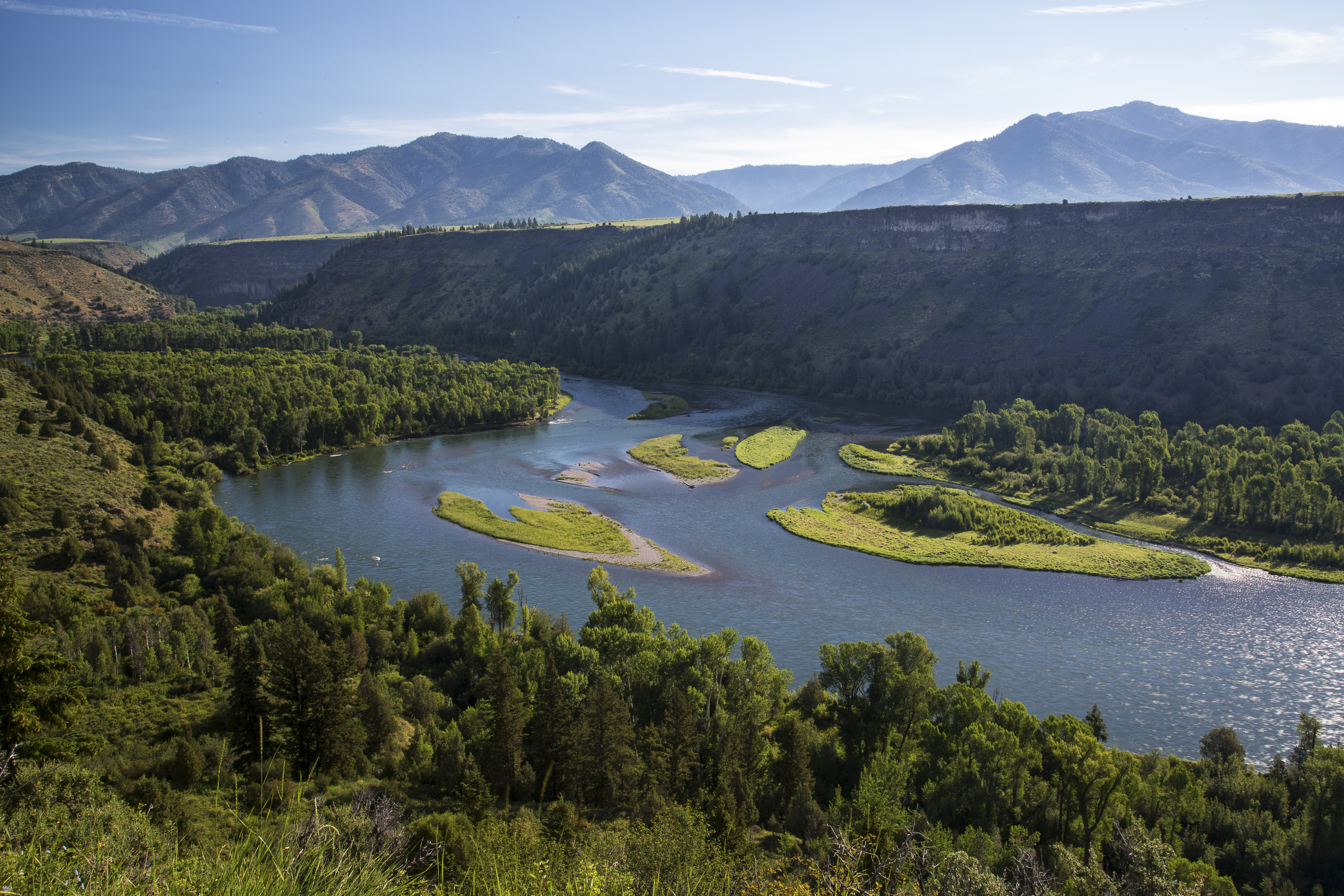 The South Fork of the Snake River flows 66 miles across southeastern Idaho, through high mountain valleys, rugged canyons, and broad flood plains to its confluence with the Henry’s Fork near Menan Buttes. Since 1985, the river has been eligible for inclusion in the nation’s Wild and Scenic River System. The South Fork supports the largest riparian cottonwood gallery forest in the West and is among the most unique and diverse ecosystems in Idaho. It is also home to 126 bird species, including 21 raptors, meriting a “National Important Bird Area” designation. The river also supports the largest native cutthroat fishery outside of Yellowstone National Park. The corridor is also home for an impressive array of other wildlife including moose, deer, elk, mountain goats, mountain lions, black bears, bobcats, coyotes, river otter, beaver, fox, and mink. Among recreationists throughout the country, the South Fork is known as a premier blue ribbon trout fishery, and was selected as the host site for the 1997 World Fly-Fishing Championship. More than 300,000 anglers, campers, hikers, boaters and other recreationists use the South Fork each year.